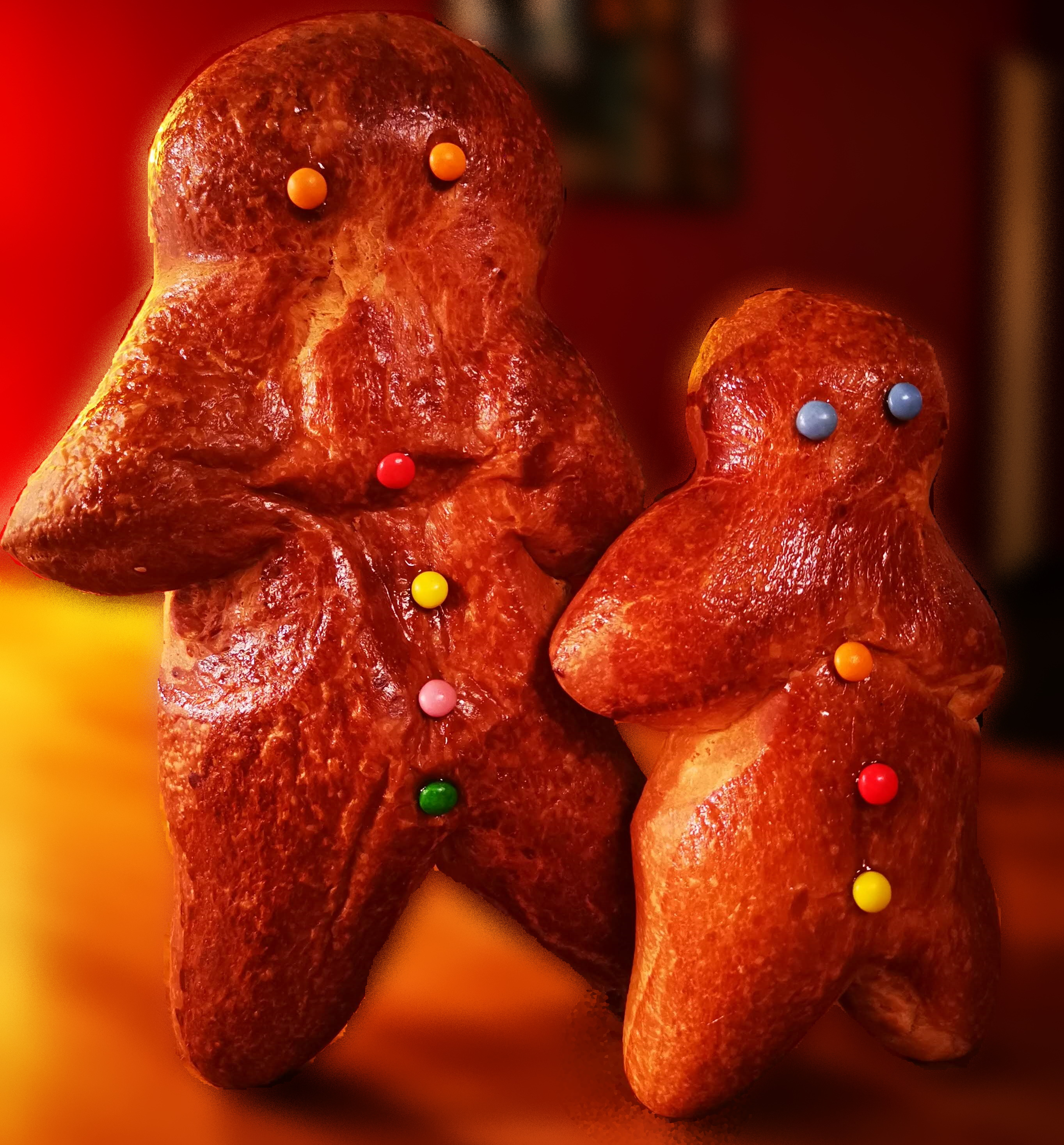 Boxemännchen (singular) / Boxemännercher (plural), the Luxebourgish version of the Stutenkerl.